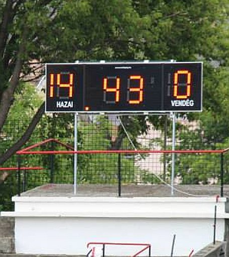 New twin result signboards were installed in the Buzanszky stadium. One of was placed under roof of tribune and opposite side on top of the grandstand. Their debut was in Dorog-Csepel women soccer match in 2014.